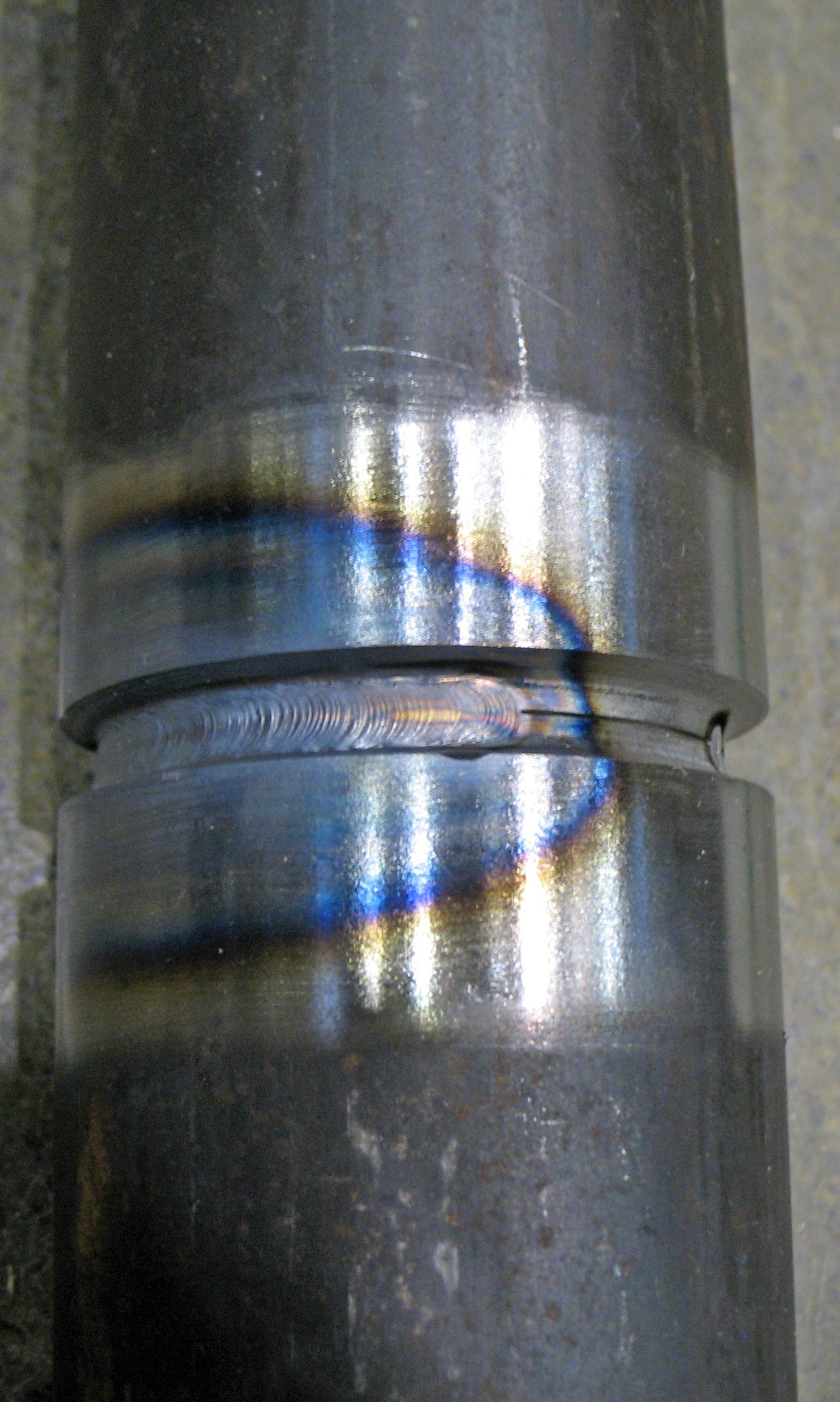 Partial weld around a pipe joint with clear heat affected zone. This is ASME SA106 Grade B steel pipe NPS 2.5 SCH 80 with J-grooved prepared ends. An automated TIG orbital welder made half an orbit before aborting. The heat affected zone is clearly visible because of the polished ends, even though it is generally innocuous in this material. (SA106 Grade B) Photo by Yannick Trottier, 2006.